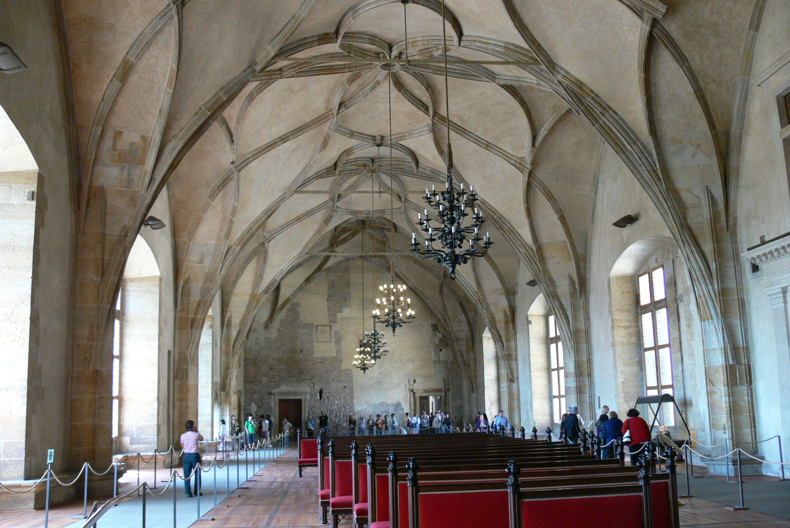 Vladislav Hall ( Old Royal Palace, Prague castle ).